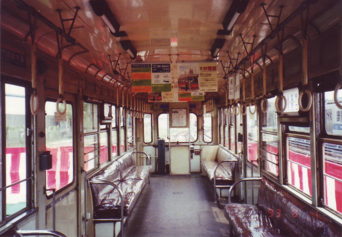 Interior of Osaka City Tram #3050. taken in 1993.